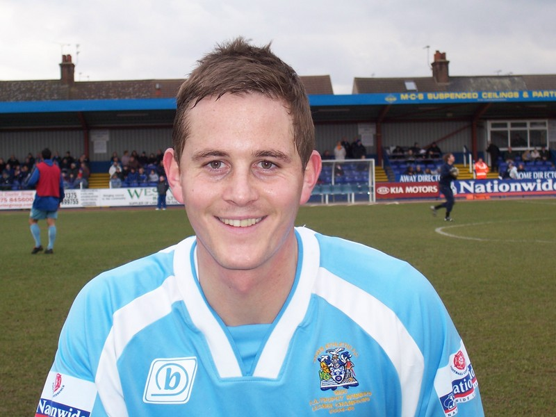 Photo of Christian Hanson for Grays Athletic in 2006. Photo taken by Jim Dobbs